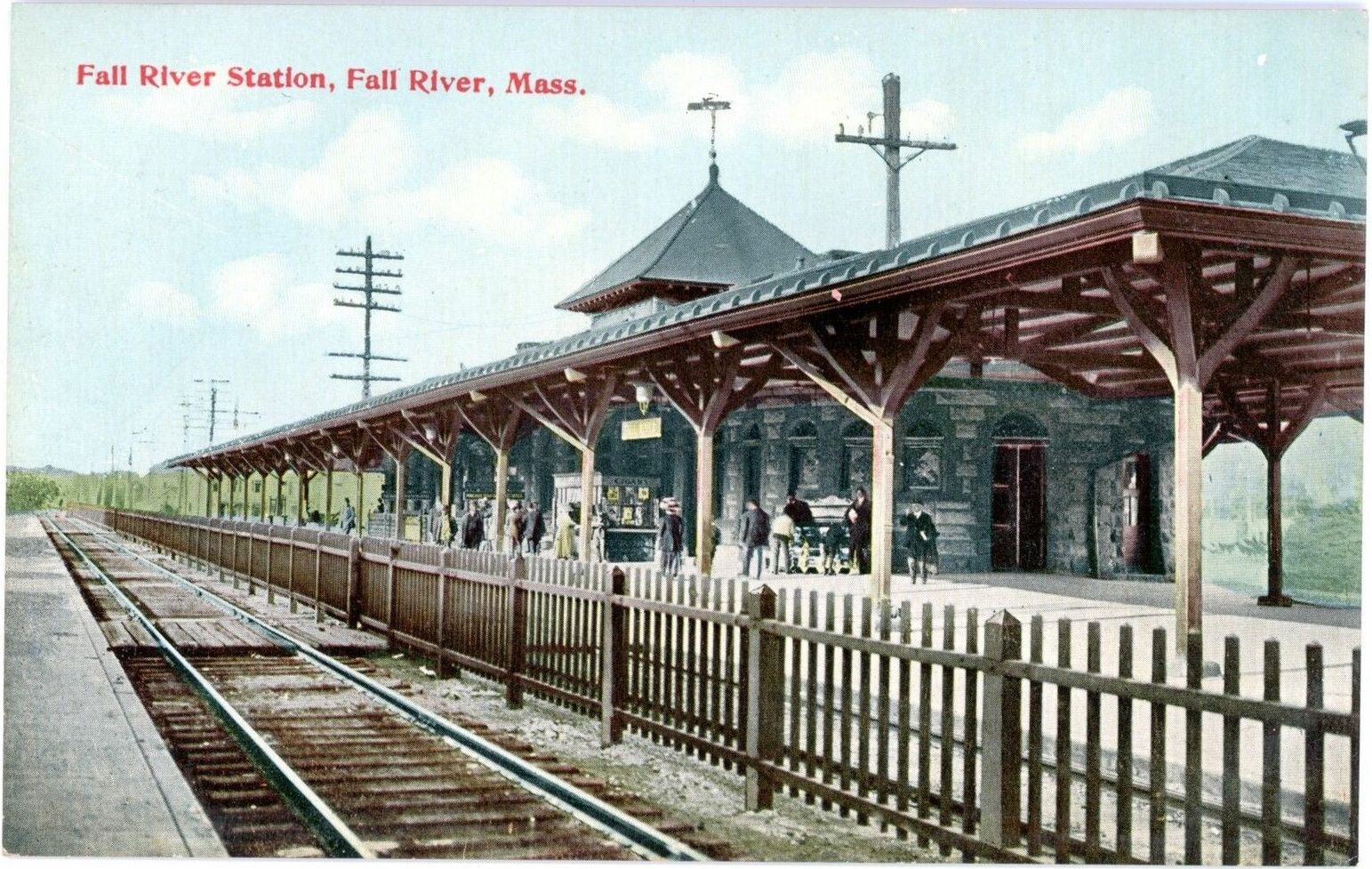 Early divided back postcard of Fall River station